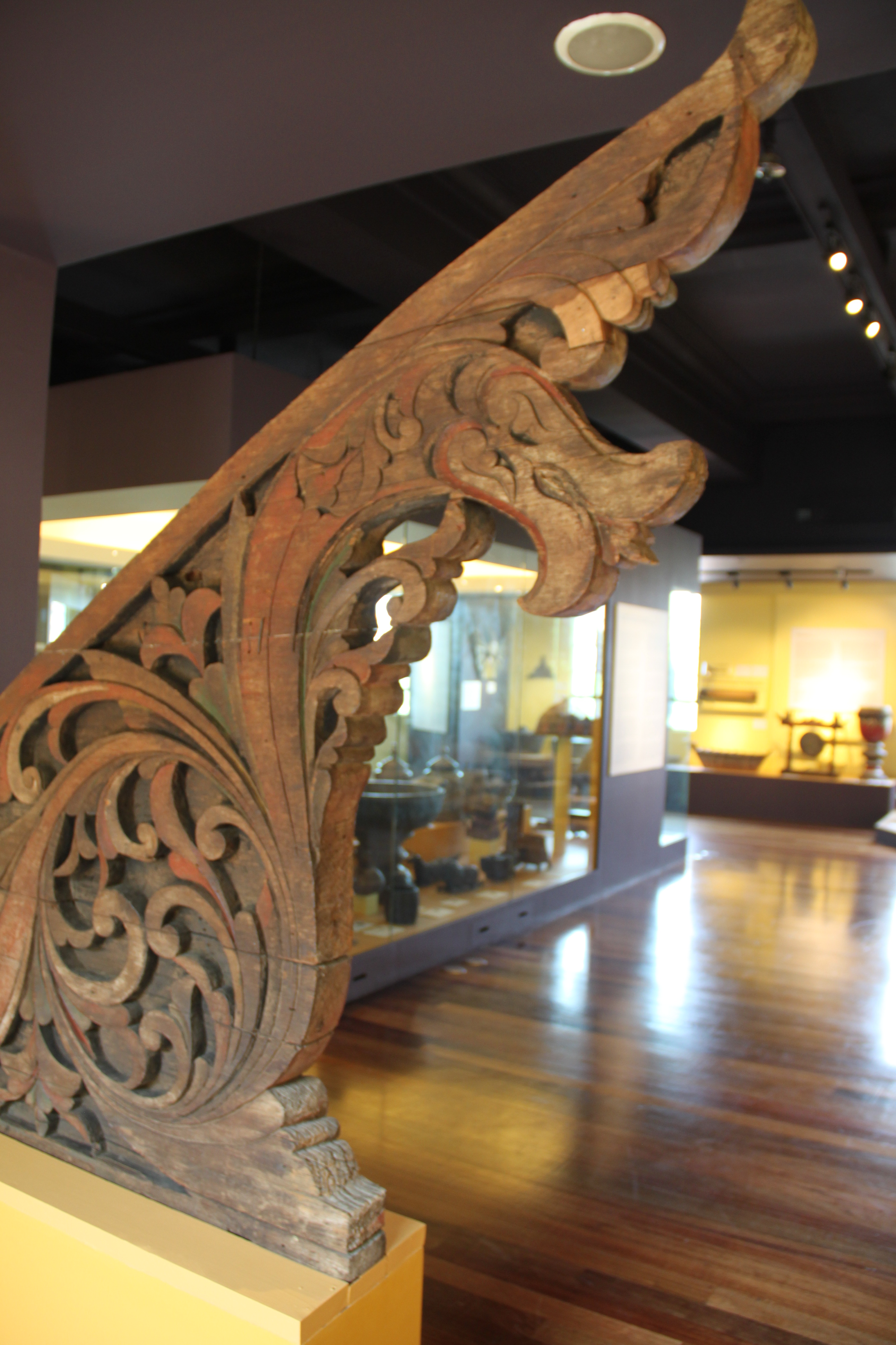 Bangsamoro and Lumad Cultures Gallery, Museum of the Filipino People, Rizal Park, Manila, Philippines. Complete indexed photo collection at .